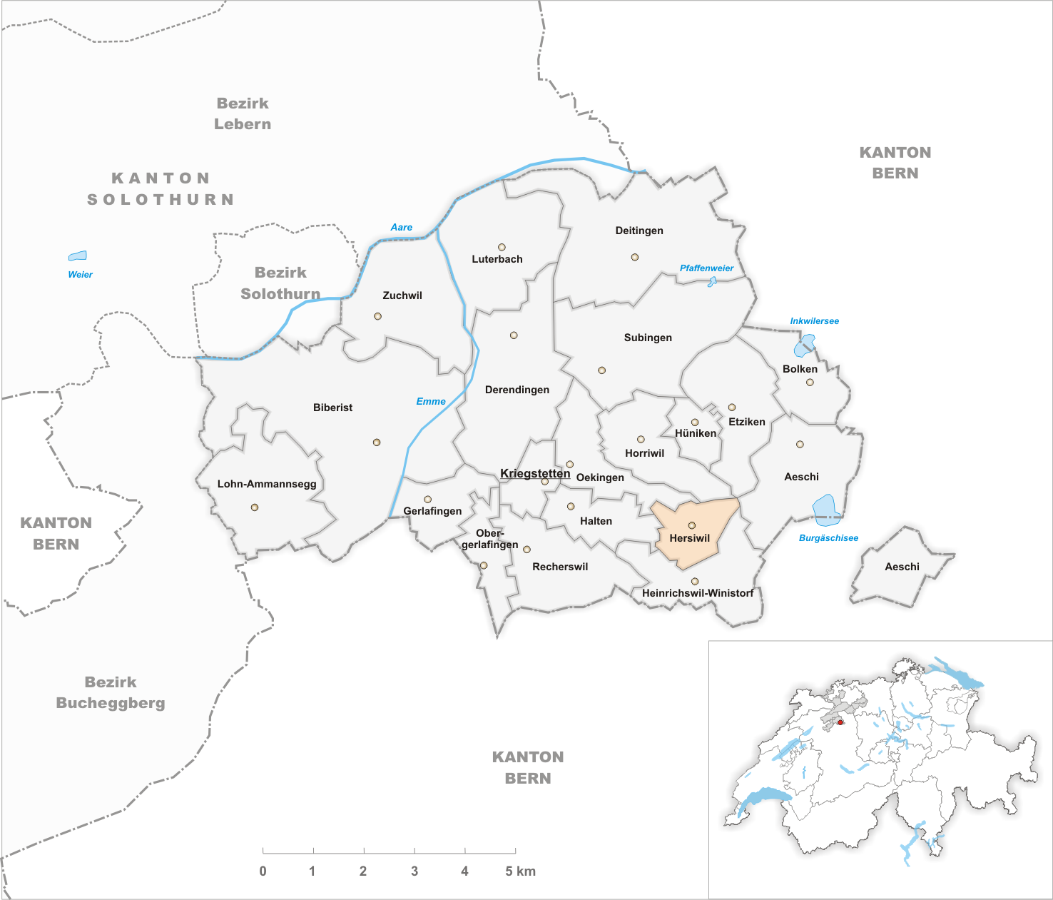 Municipality Hersiwil